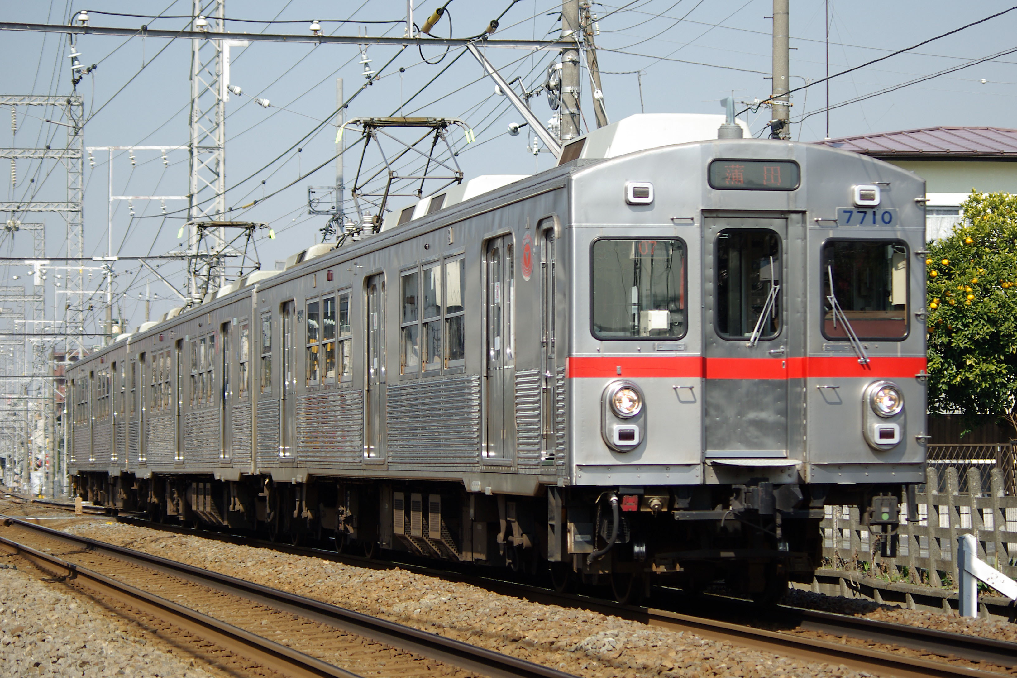 Tokyu 7700 series three-car EMU set 7910 on the Ikegami Line